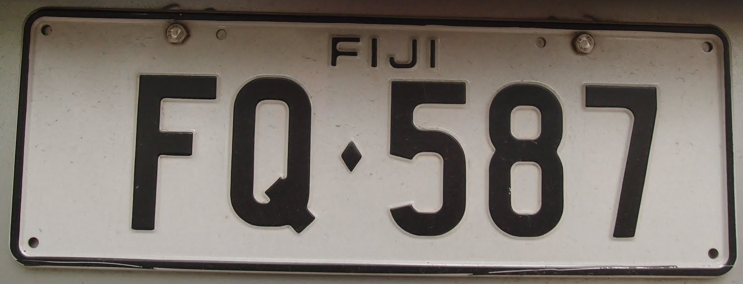 Fiji vehicle registration plate